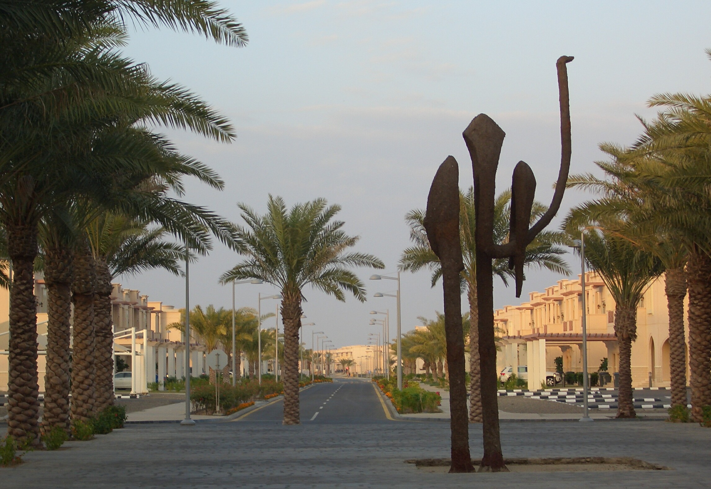 KAUST residential street with outdoor sculpture of a camel, 2011 photo